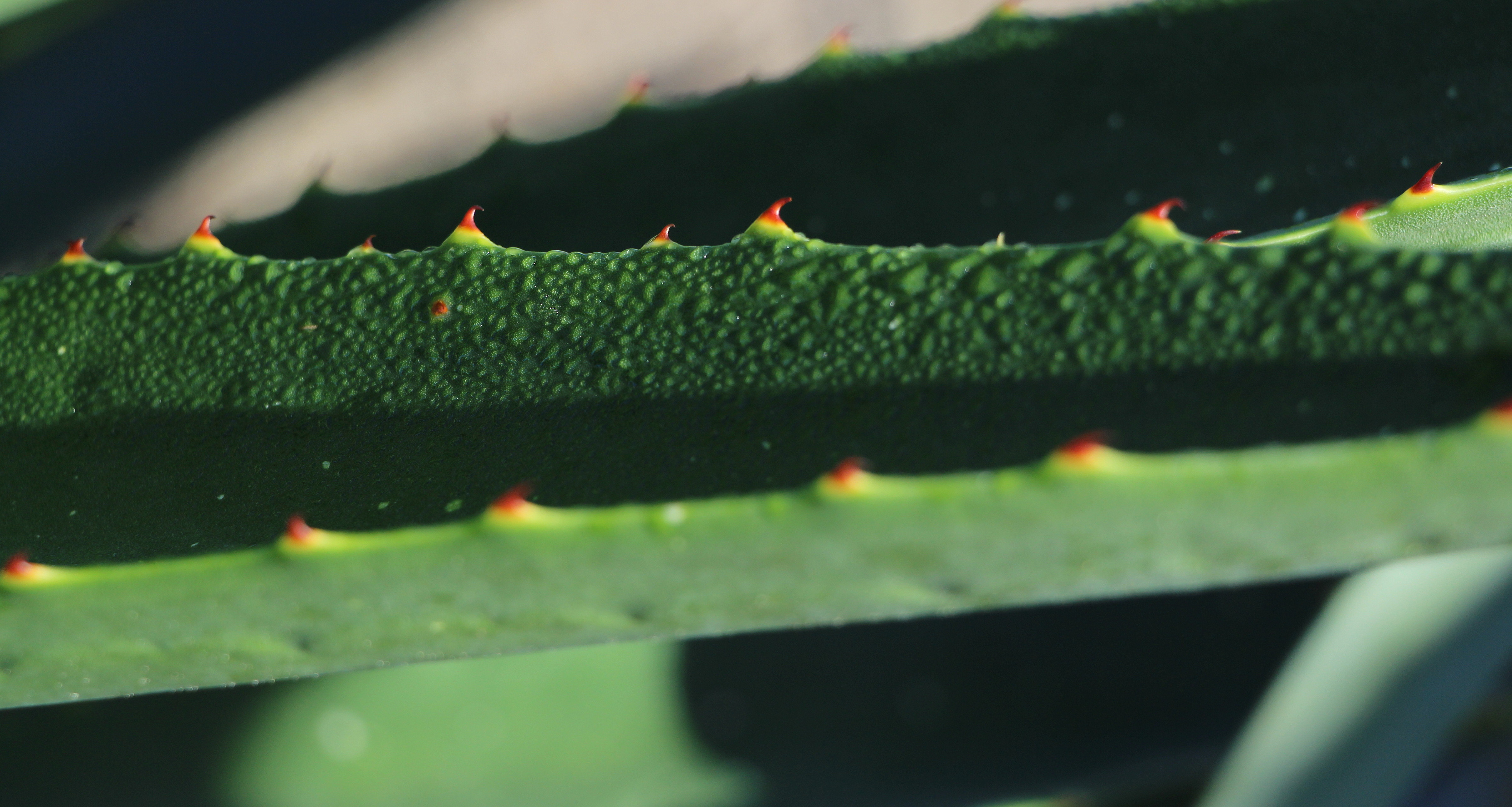 Agave decipiens. Peter Black Conservatory, Victoria Esplanade Park, Palmerston North, New Zealand